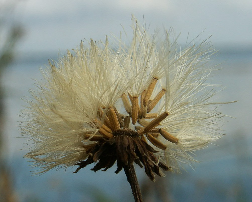 Fruit of Sonchus palustris. On the Odra river near Police (NW Poland).